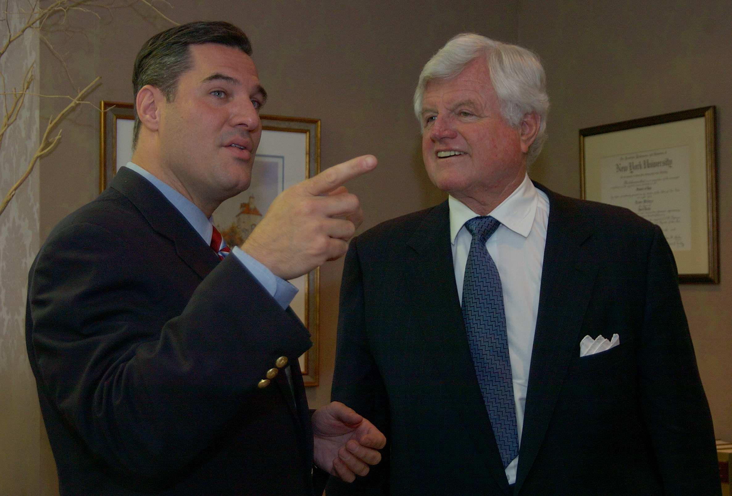 This is a picture of Ted Kennedy with Michael Wildes on July 11, 2005.